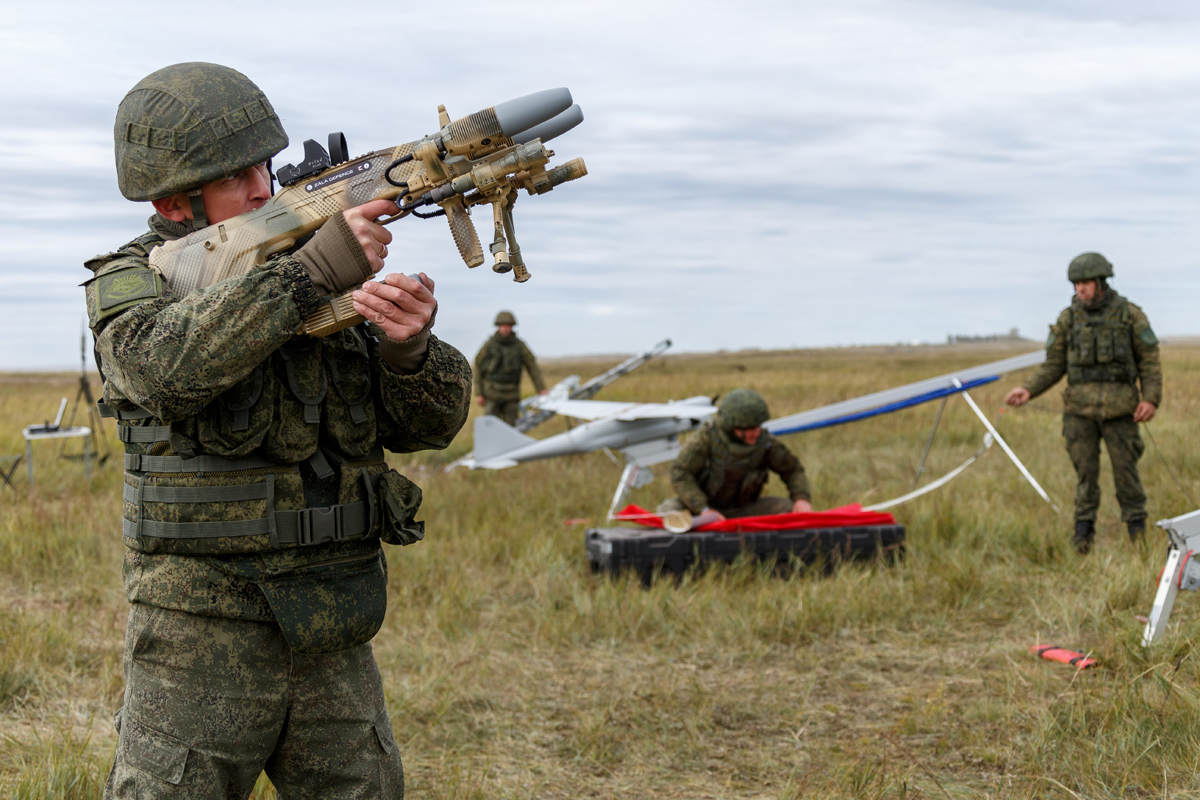 Anti-UAV Rex-1.